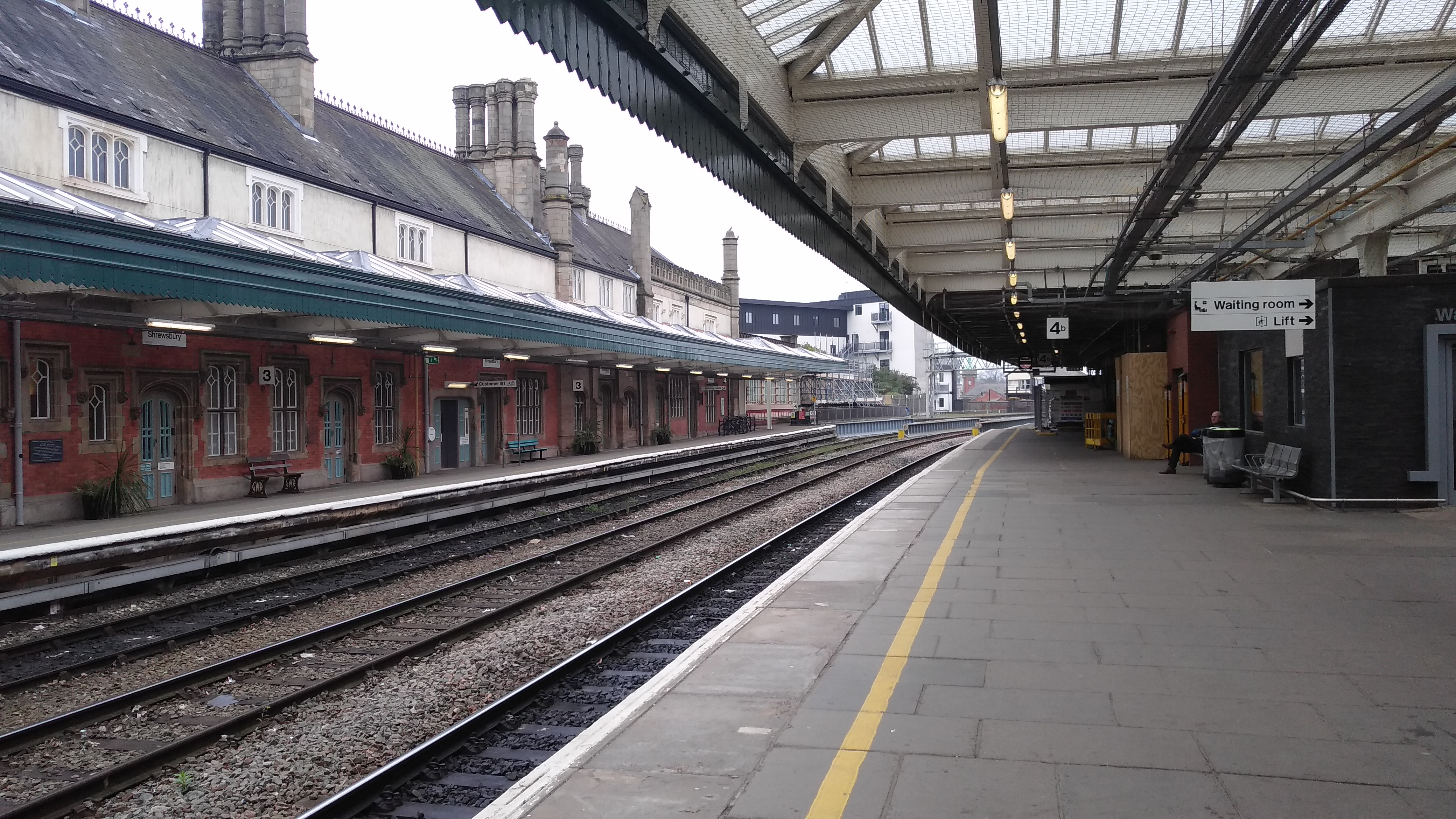 Shrewsbury railway station platform 4a